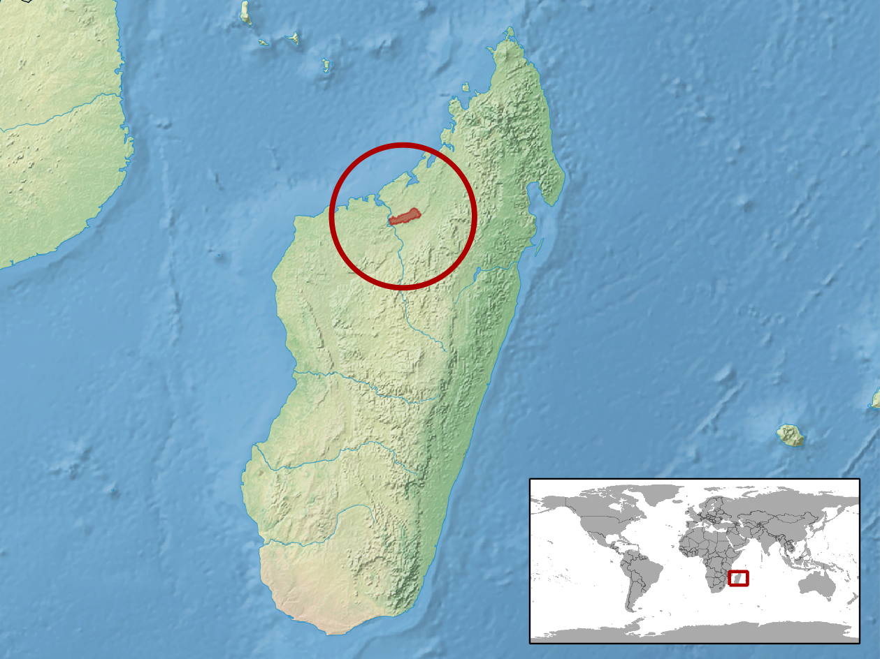 geographic distribution of Blaesodactylus ambonihazo (Native: Madagascar)